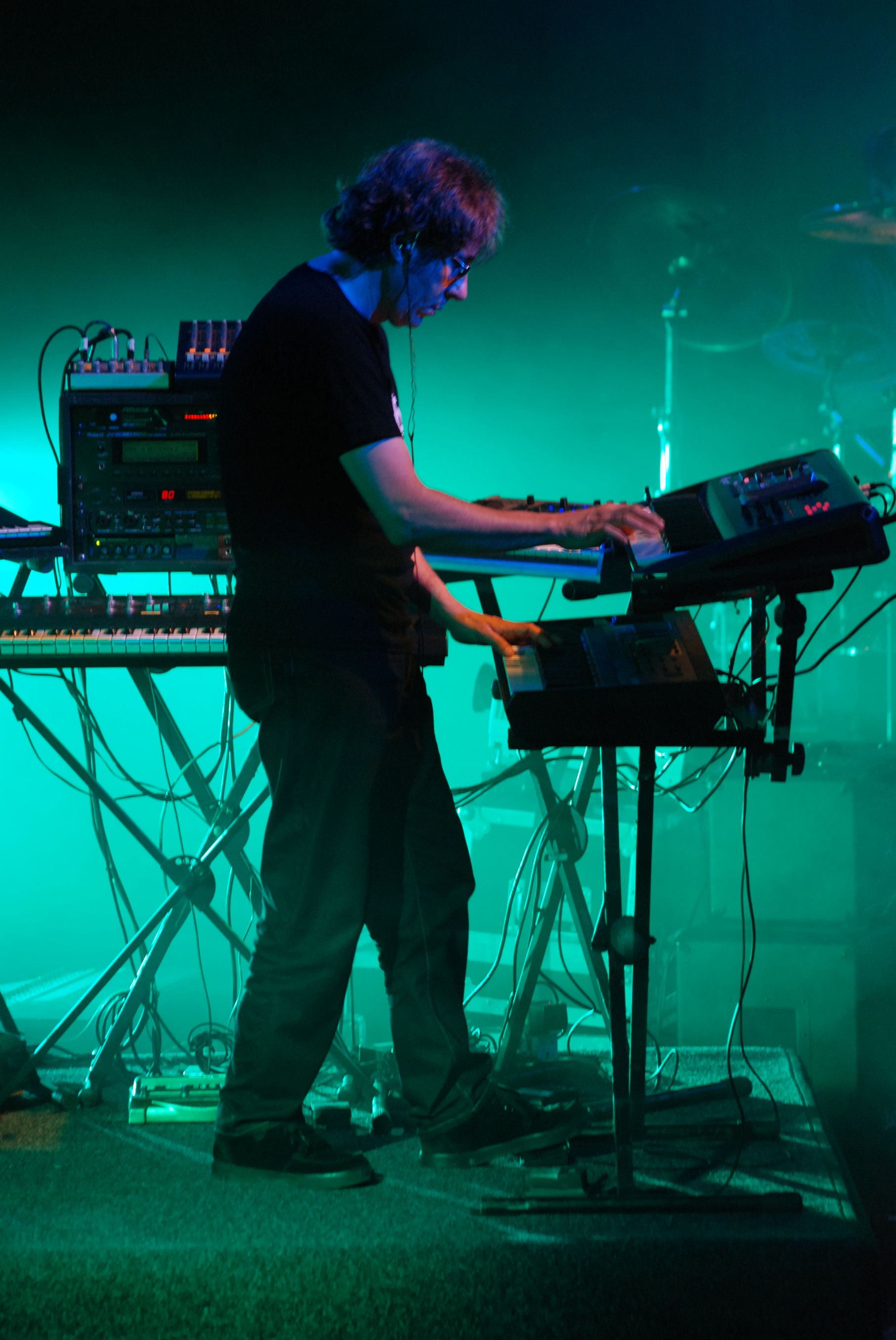 Richard Barbieri from Porcupine Tree during concert in TS Wisła in Kraków